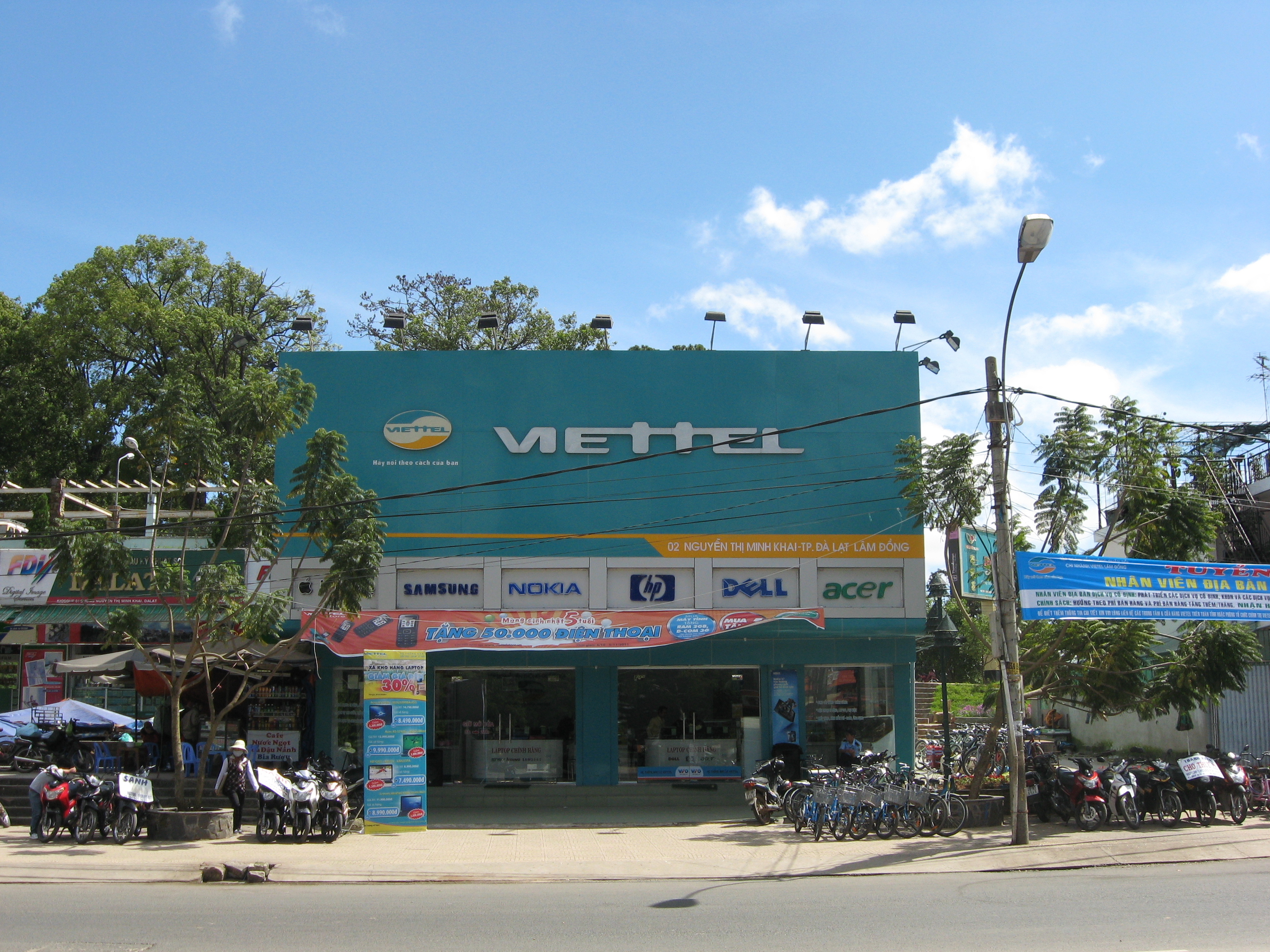 Viettel Da Lat